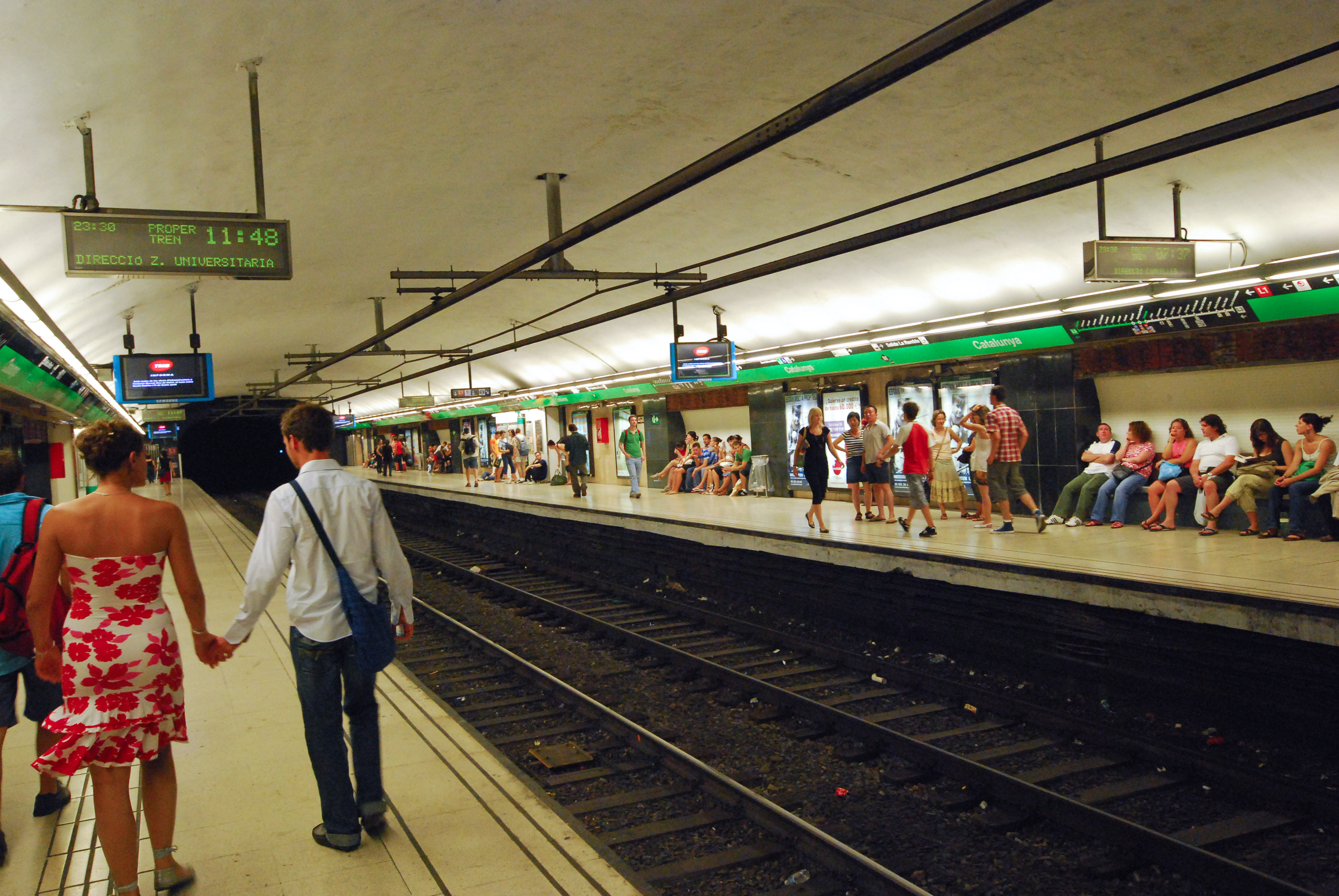 Lot of young people in the subway at night!